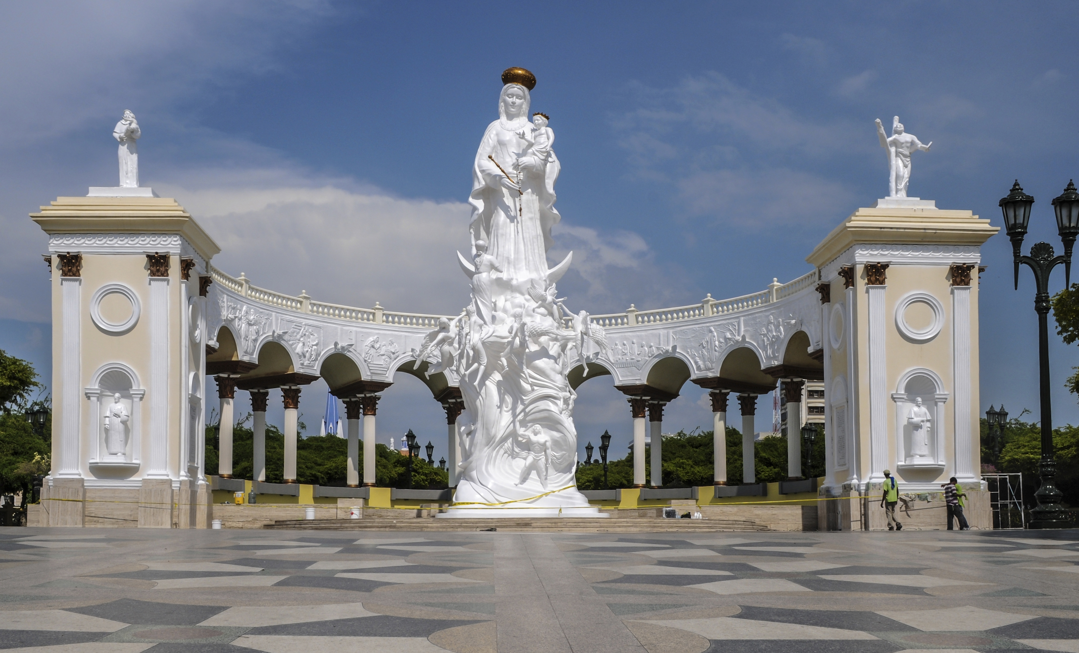 Monument to the Virgin of chiquinquira, Maracaibo, Venezuela